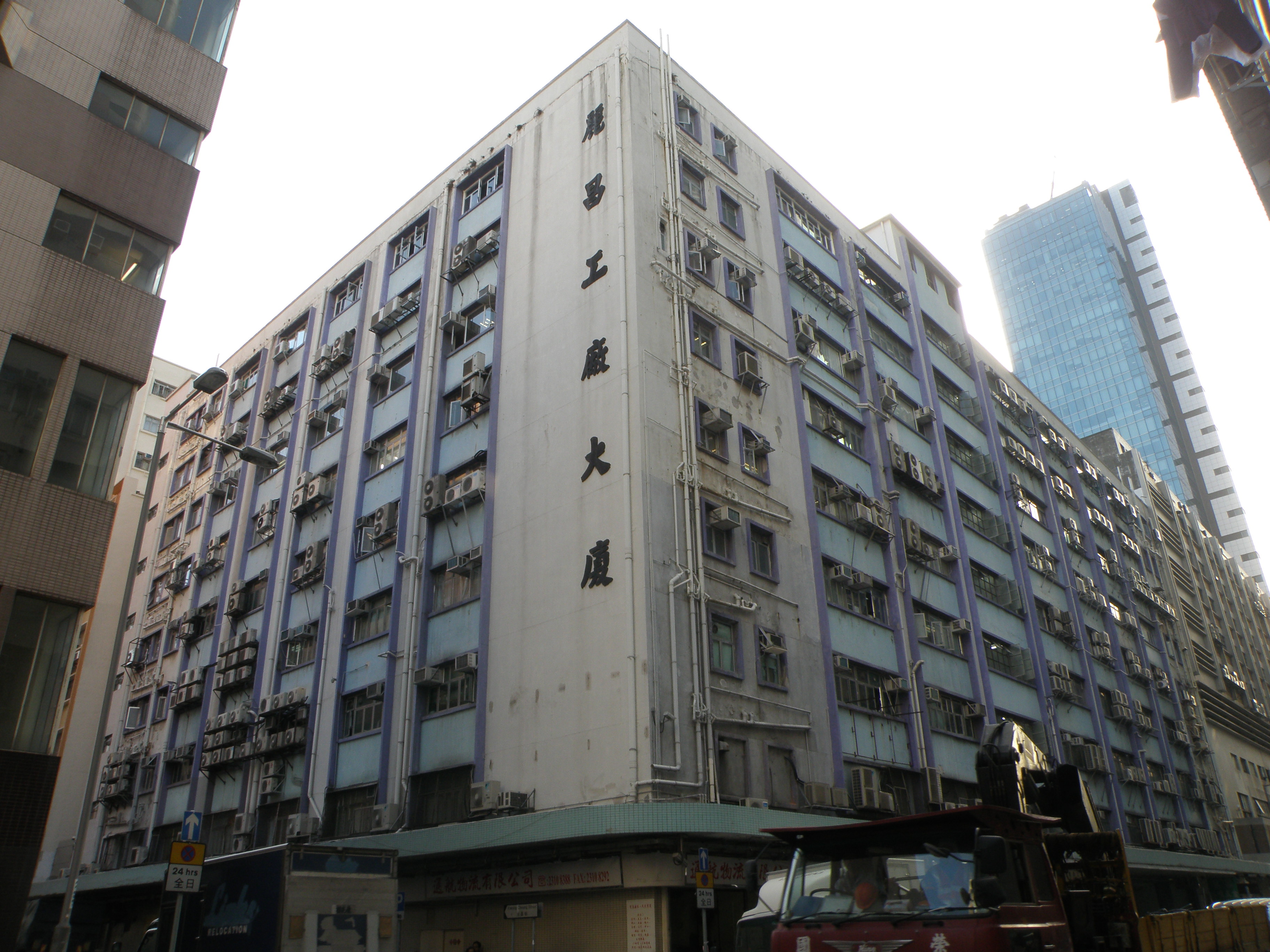 Lai Cheung Factory Building in Lai Chi Kok, Hong Kong.